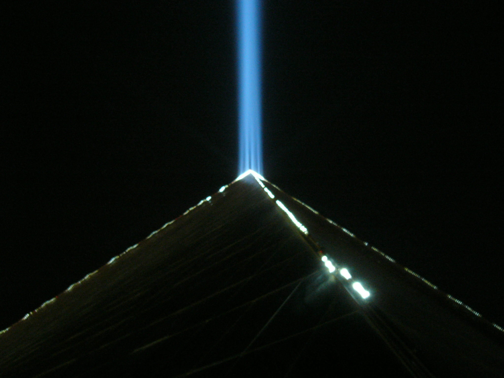 The light of the Luxor hotel in Vegas Nevada.